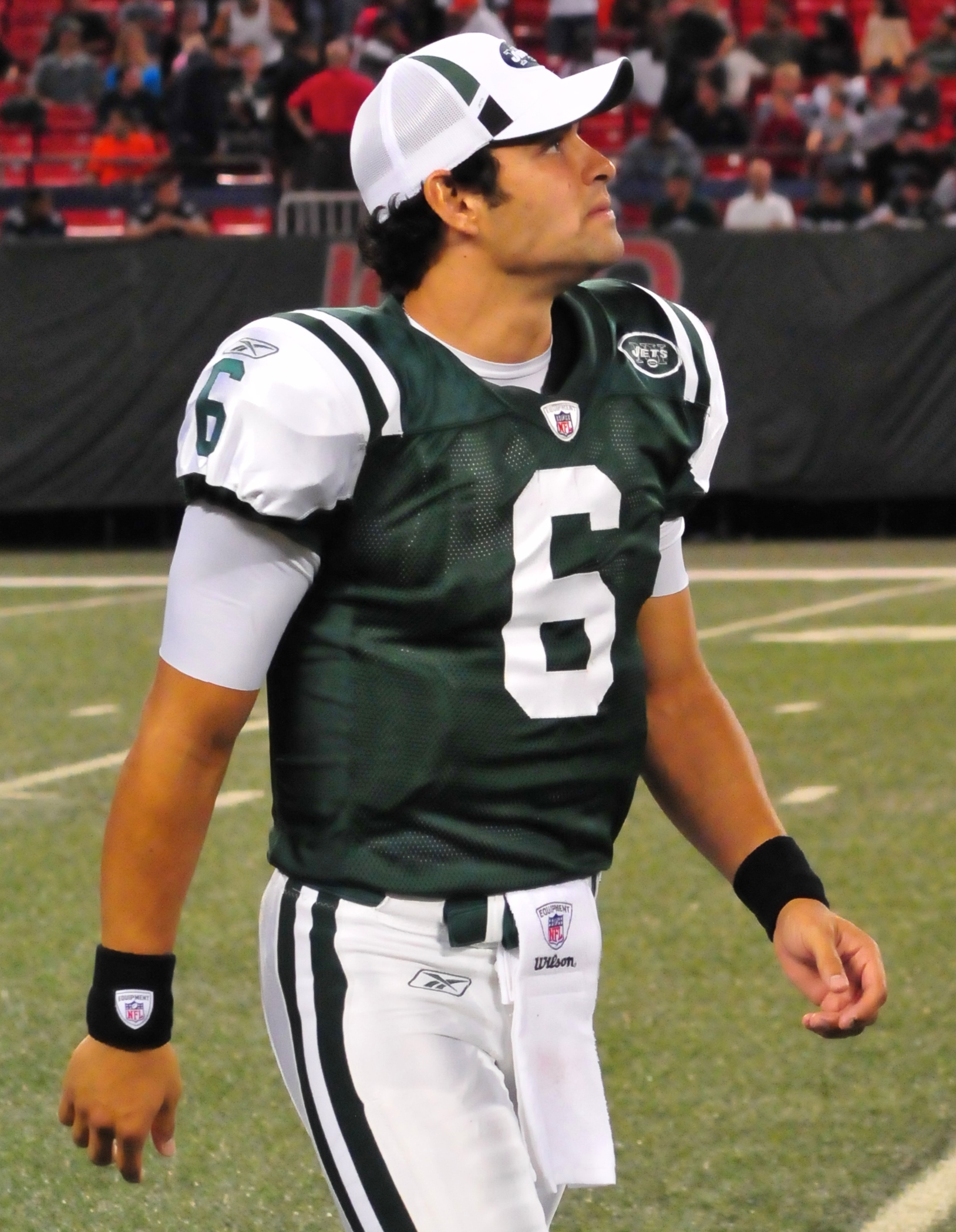 Mark Sanchez in his New York Jets uniform.